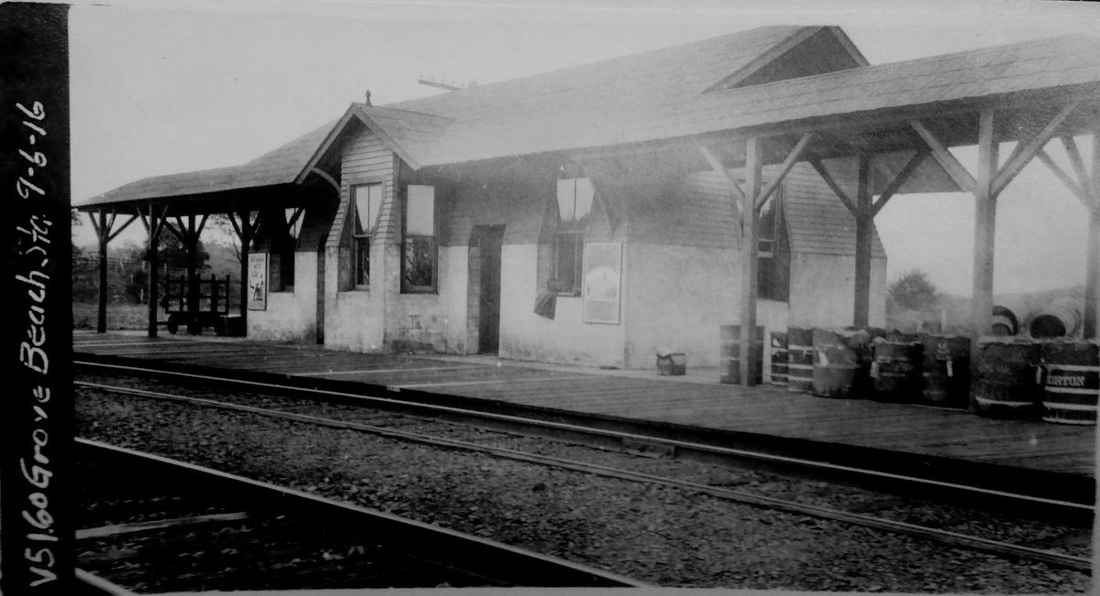 1916 valuation photograph of the 1899 station at Grove Beach